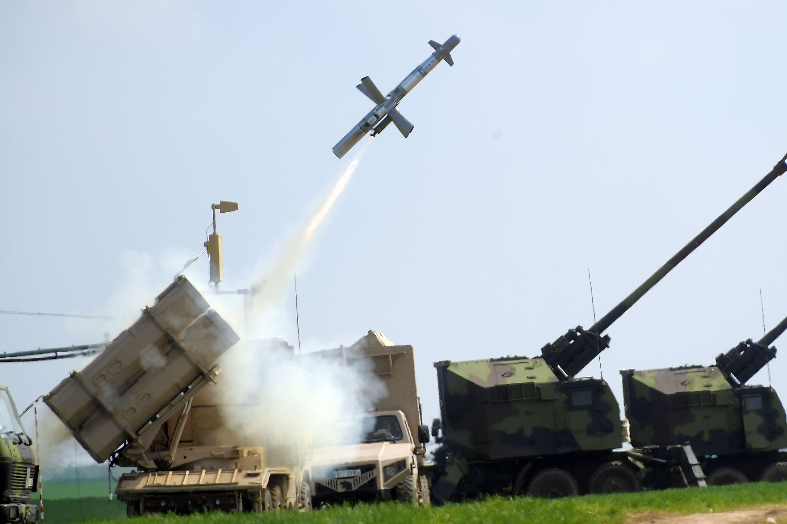 Nikinci testing ground alas missile